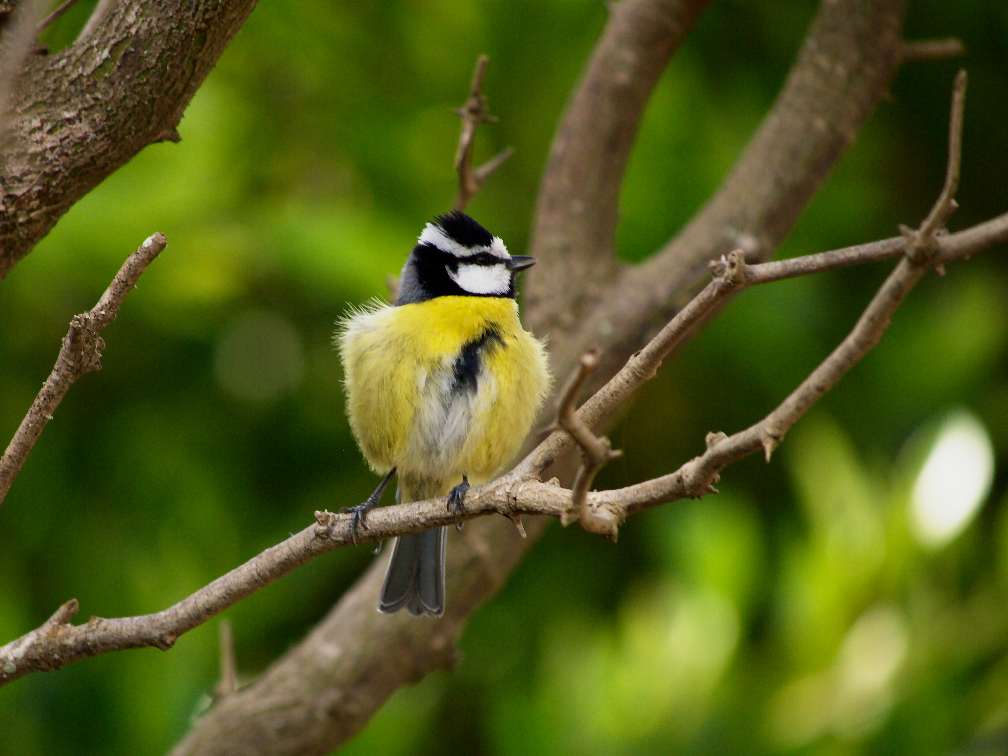 Formerly considered a sub-species of the Blue Tit, the Ultramarine Tit (syn. Afrocanarian Blue Tit) , Parus ultramarinus Bonaparte, 1841 has been given full species status in 2010. The picture shows the form which occurs on Lanzarote (subsp. degener/ultramarinus), which has a black cap, a white wing-bar (not visible here) and a rather pale-grey back. Panasonic GF1 + Panasonic Lumix G Vario 100-300, O.I.S